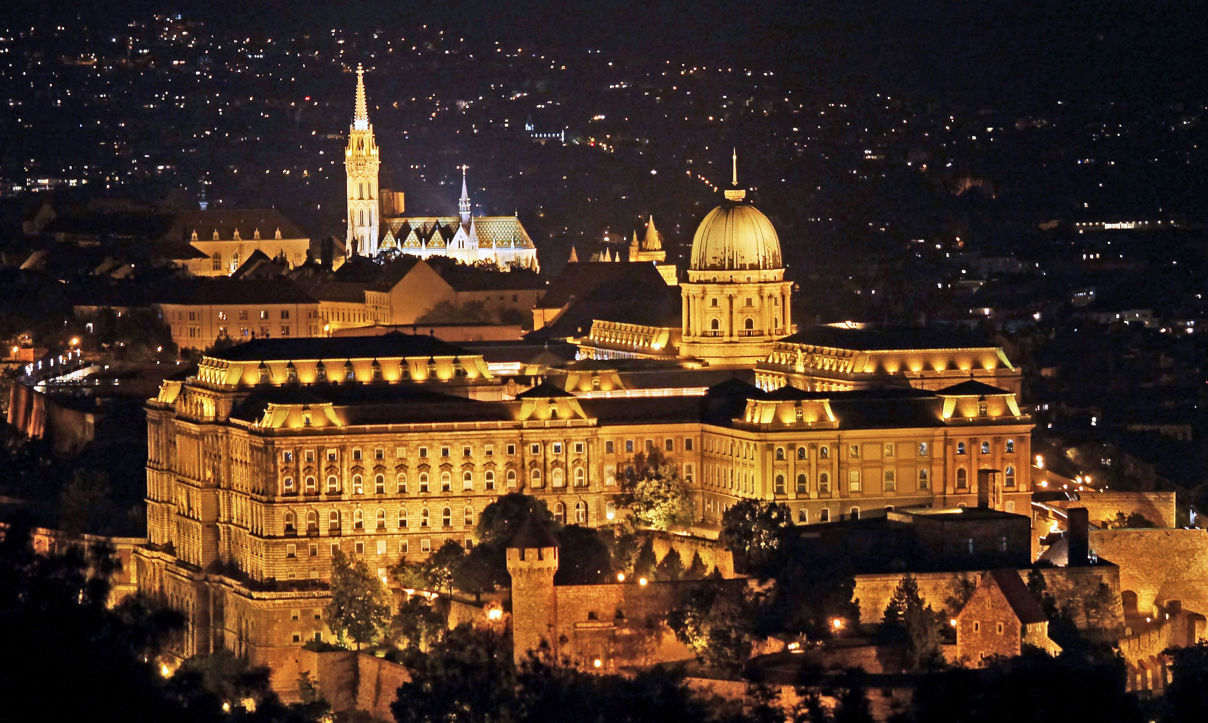 Matthias Church and buda castle Ariel view at night